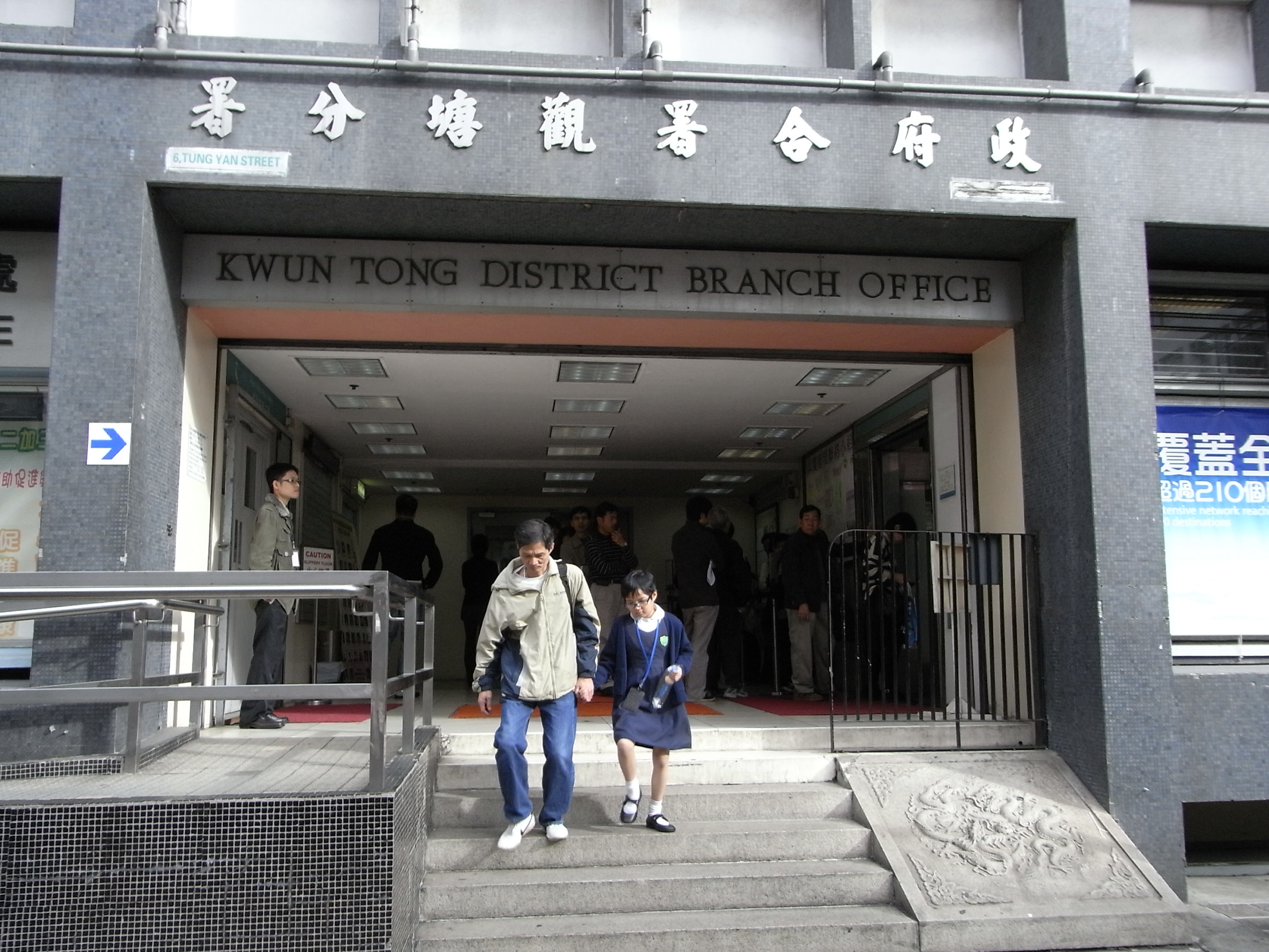 觀塘 同仁街 觀塘政府合署